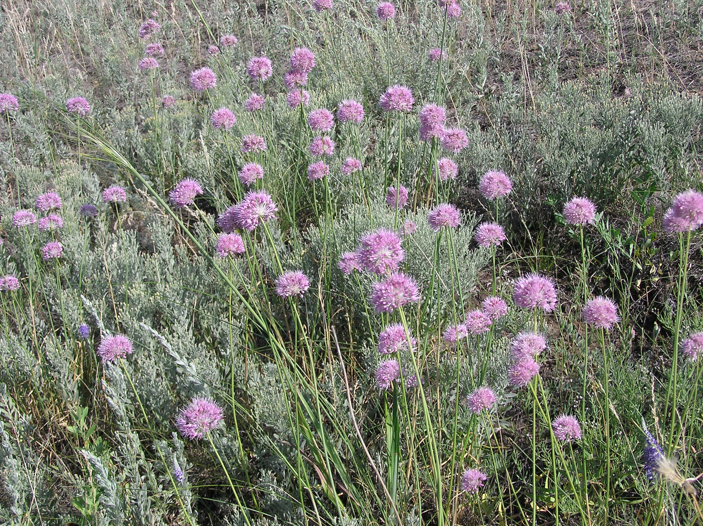 Allium globosum = Allium saxatile M. Bieb. ex Redoute (syn.: Allium dshungaricum Vved). Habitat: dry slope with sandy soil. Vicinity of Saratov city, Russia.